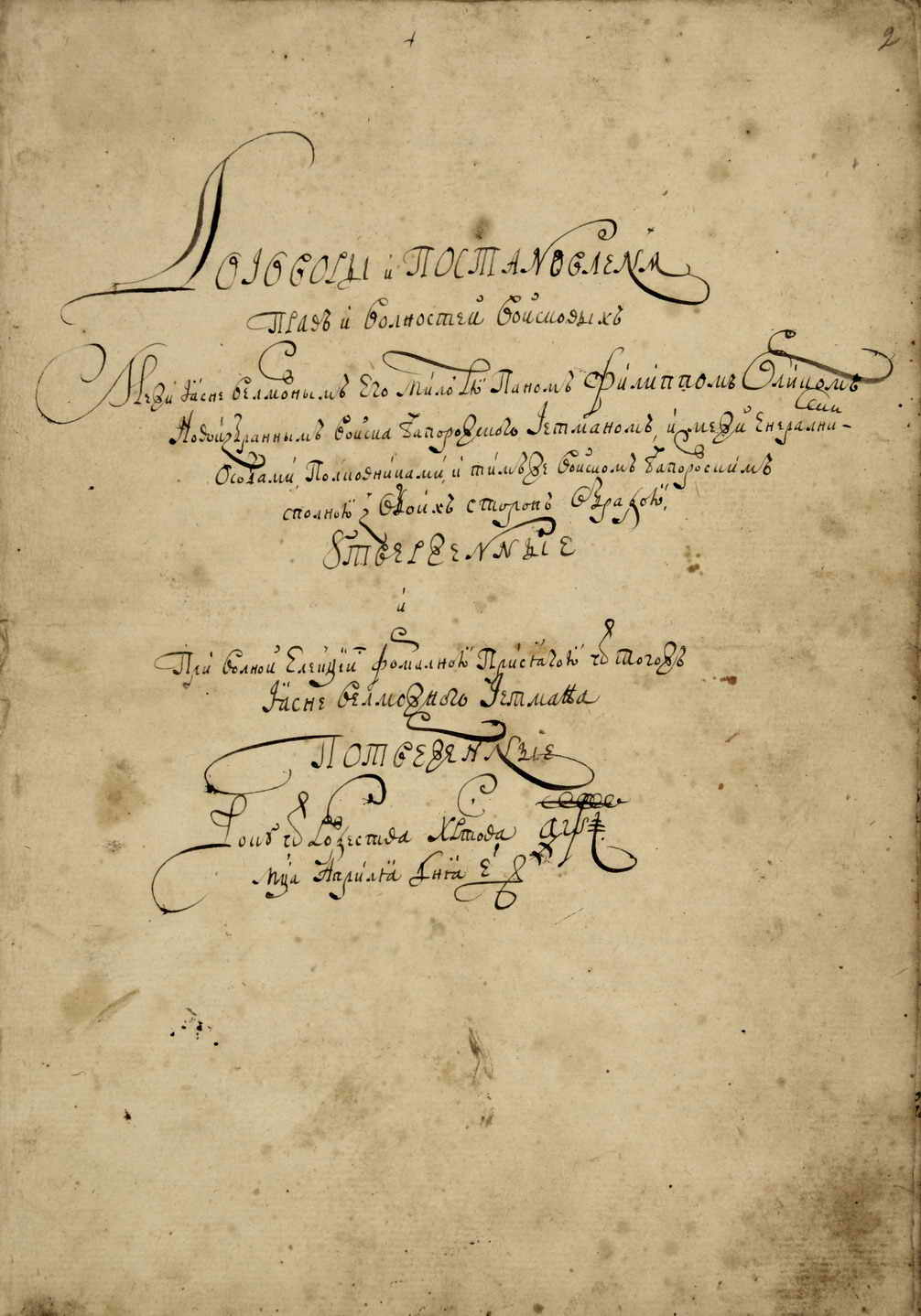 The front page of the original version of the Philipp Orlik's Constitution written in Old Ruthenian language in Bendery in April 1710. Russian State Archive of Ancient Acts (RGADA), f. 124, op. 2, d. 12, l. 2.